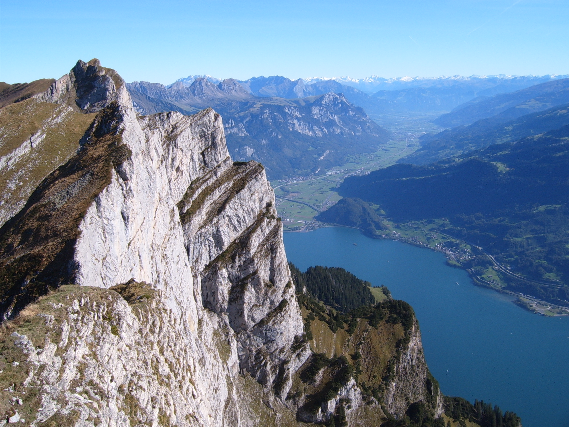 Churfirsten and Lake Walen, seen from Leistchamm (2101 m), Canton of St. Gallen (Switzerland)